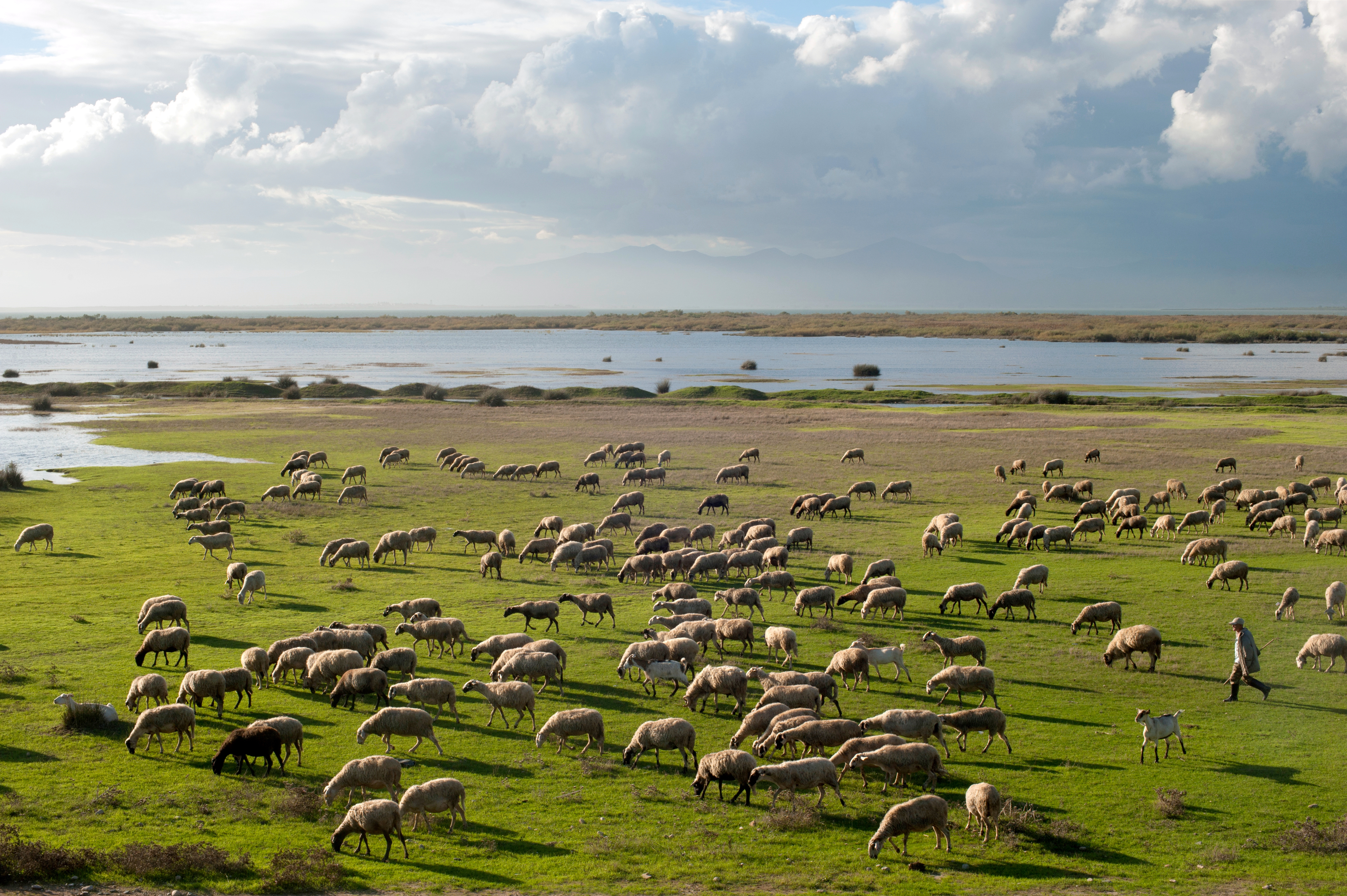 Sheep-goats shepherd / Vistonida lake landscape, Glikoneri, Rhodope Prefecture, Thrace, Greece.